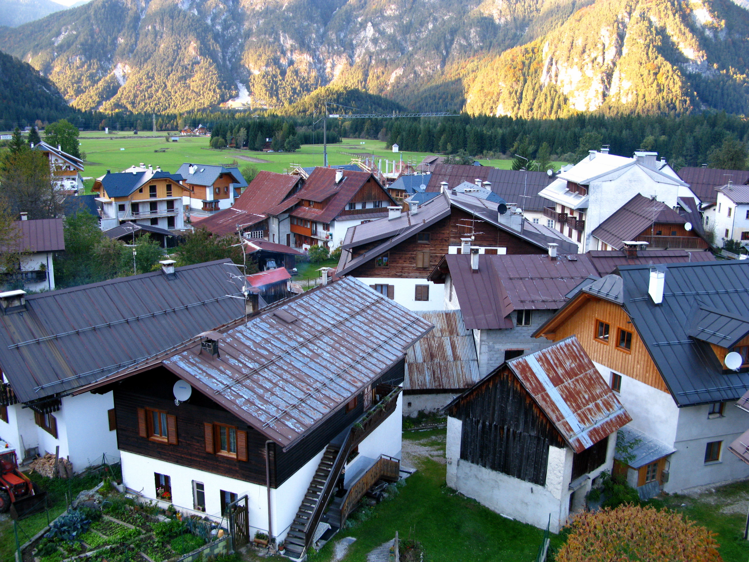 Houses in Valbruna in the community of Malborghetto in Val Canale / Friuli-Venezia Giulia / Italy / EU. In the background the Carnic Alps view towards Austria. Many houses in the area have a tin roof.